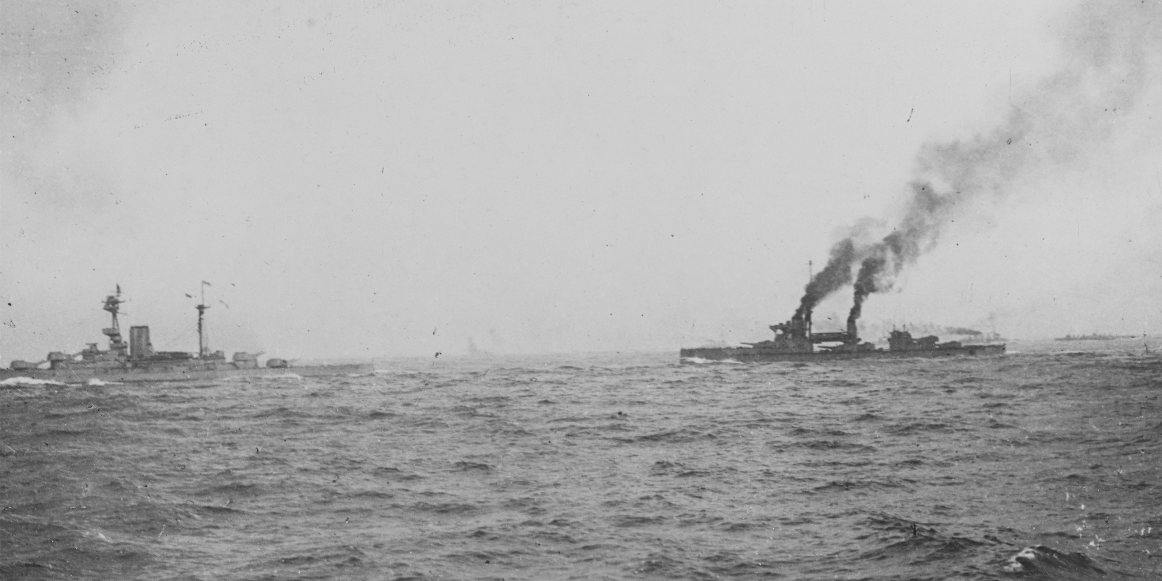 The battleships Revenge (left) and Hercules (right) en route to the Battle of Jutland